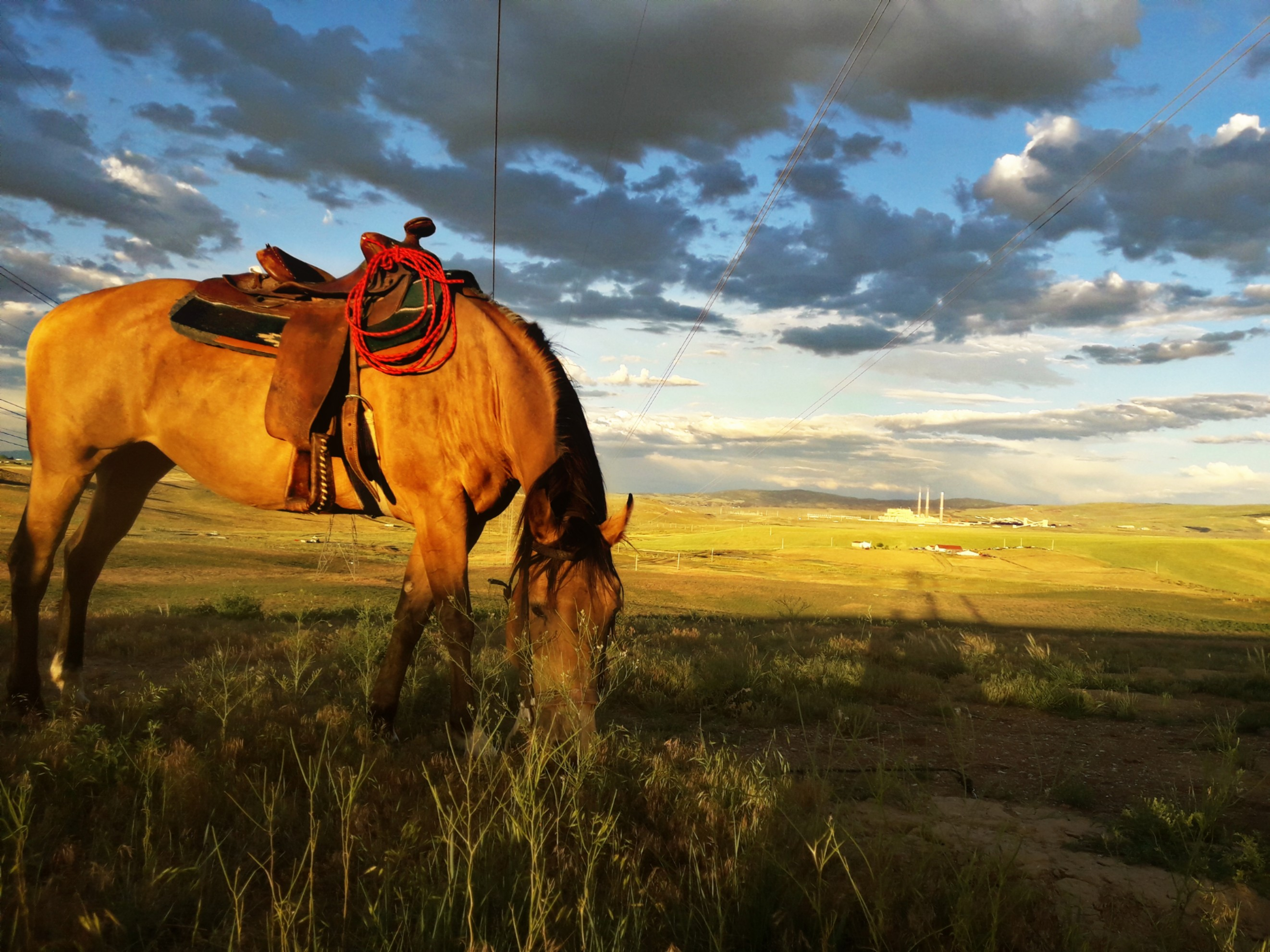 An overview of Craig, from photographer Randie Craft while on a trail ride.